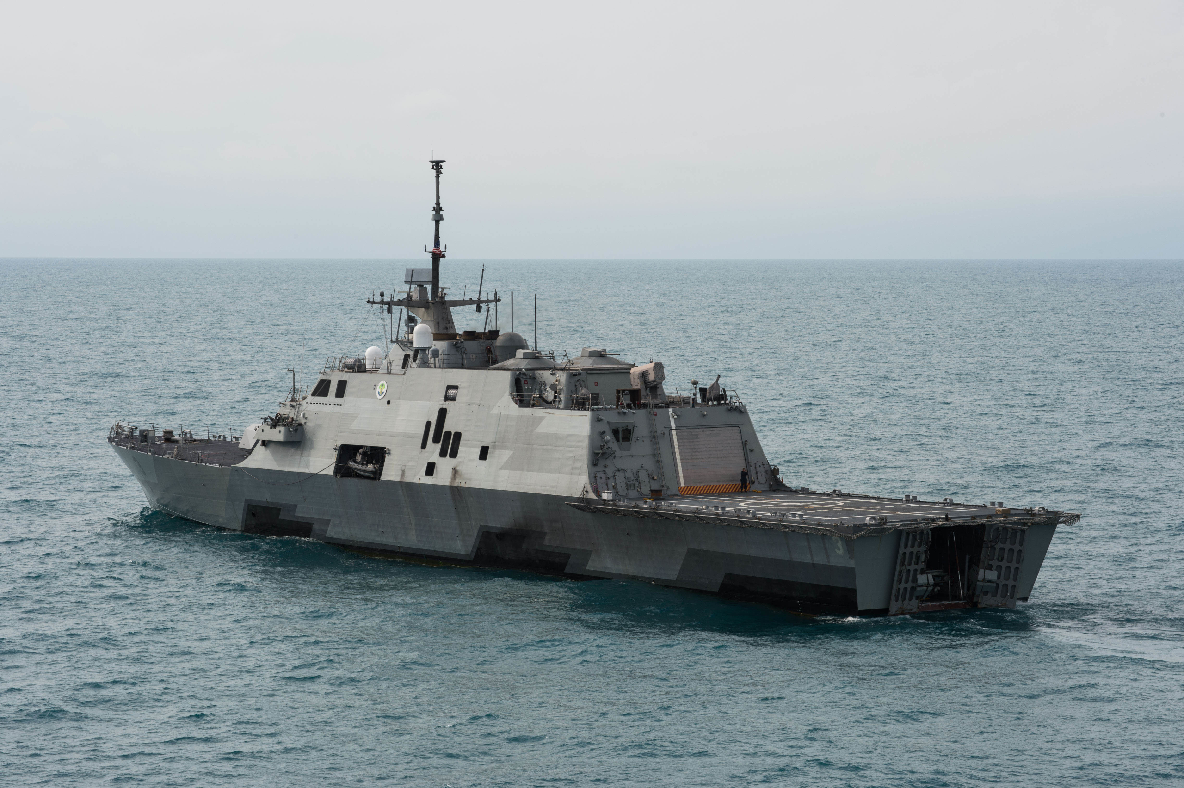 The U.S. Navy littoral combat ship USS Fort Worth (LCS-3) underway in the Java Sea near the location where the tail of AirAsia Flight QZ8501l was discovered. Fort Worth was supporting Indonesian-led efforts to locate the downed aircraft. Note the open stern doors.